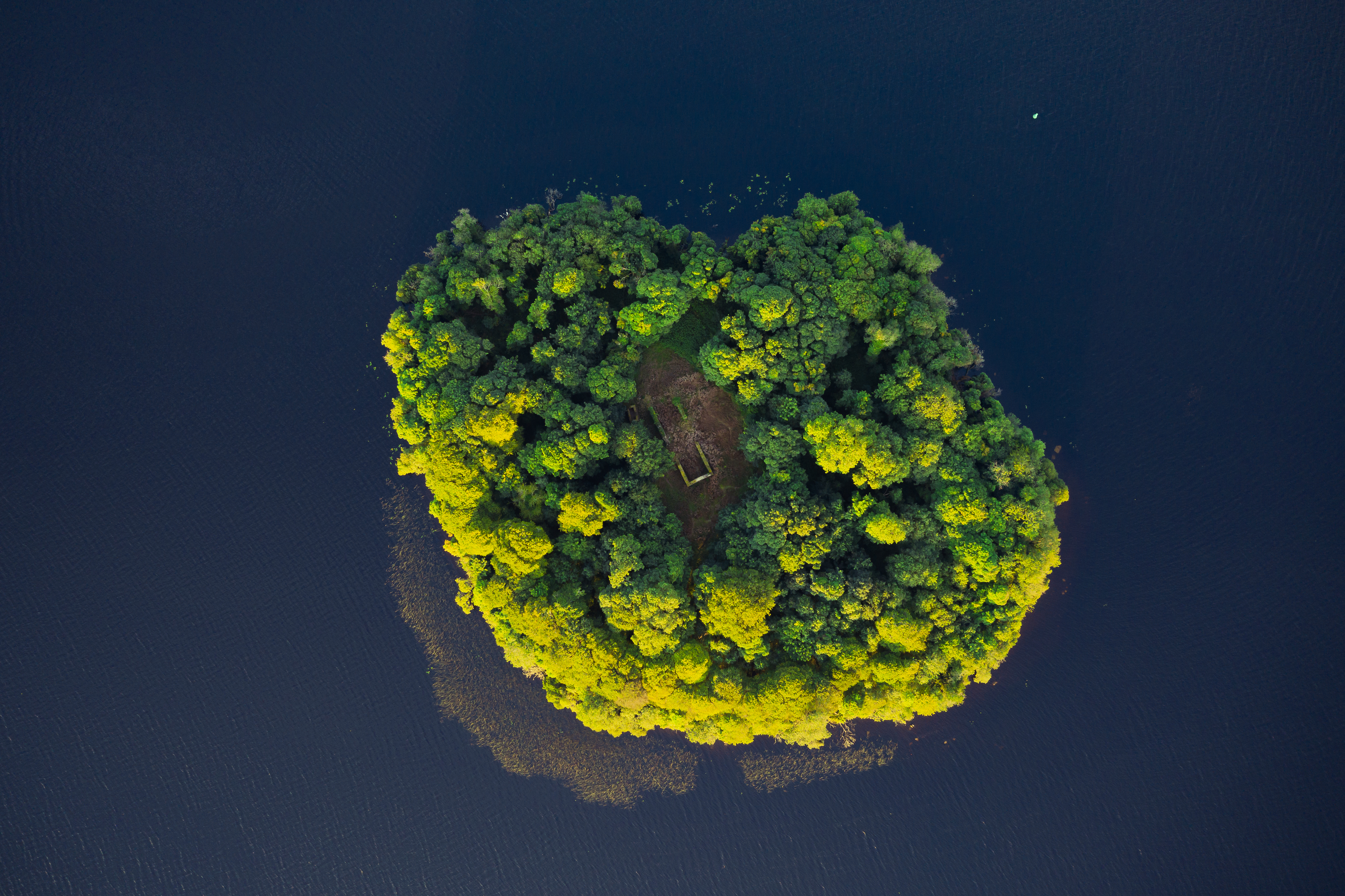 Aerial view of Inchmacnerin Abbey and church ruins on the island.